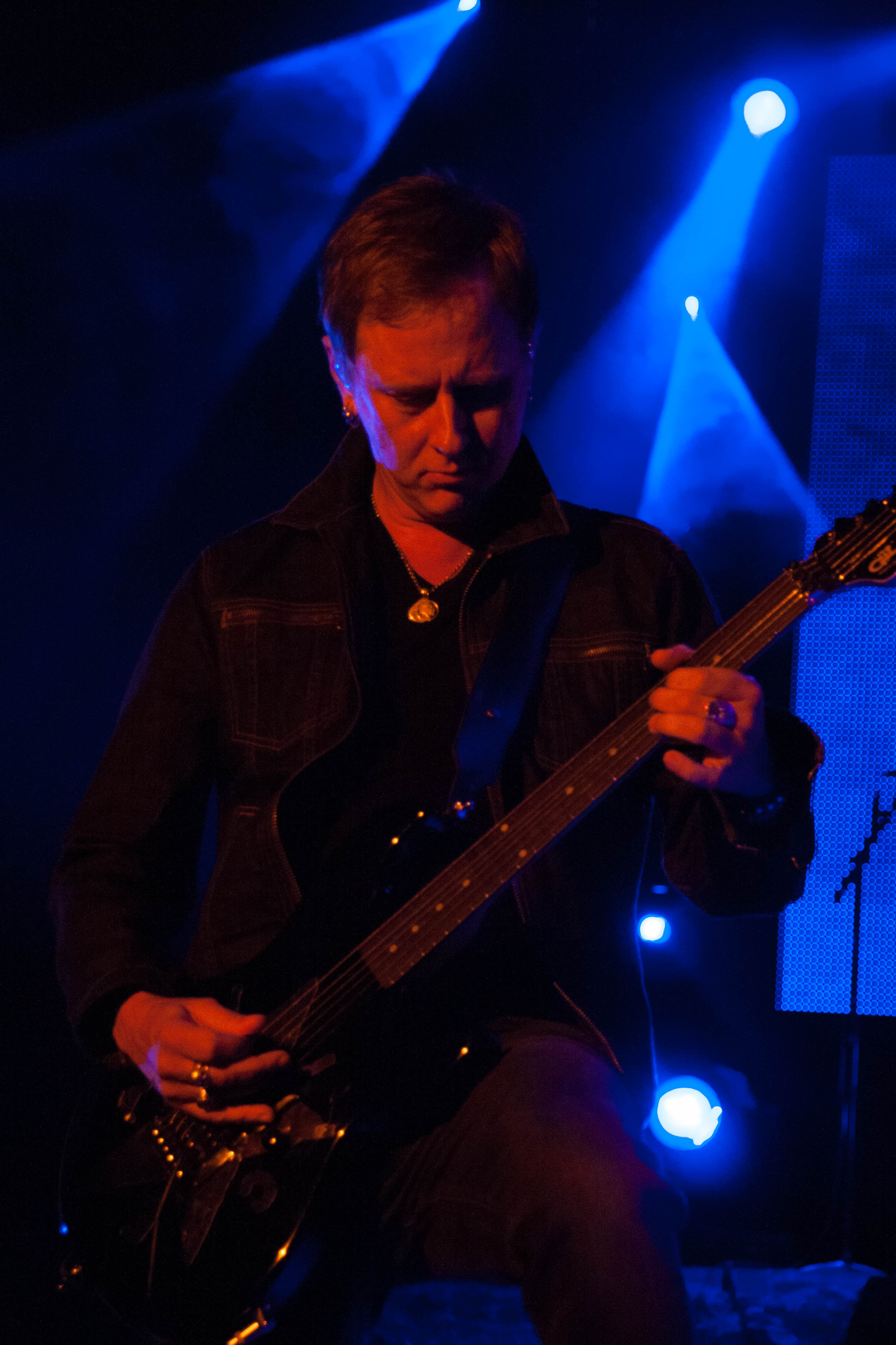 Jerry Cantrell at Uproar Fest 2013